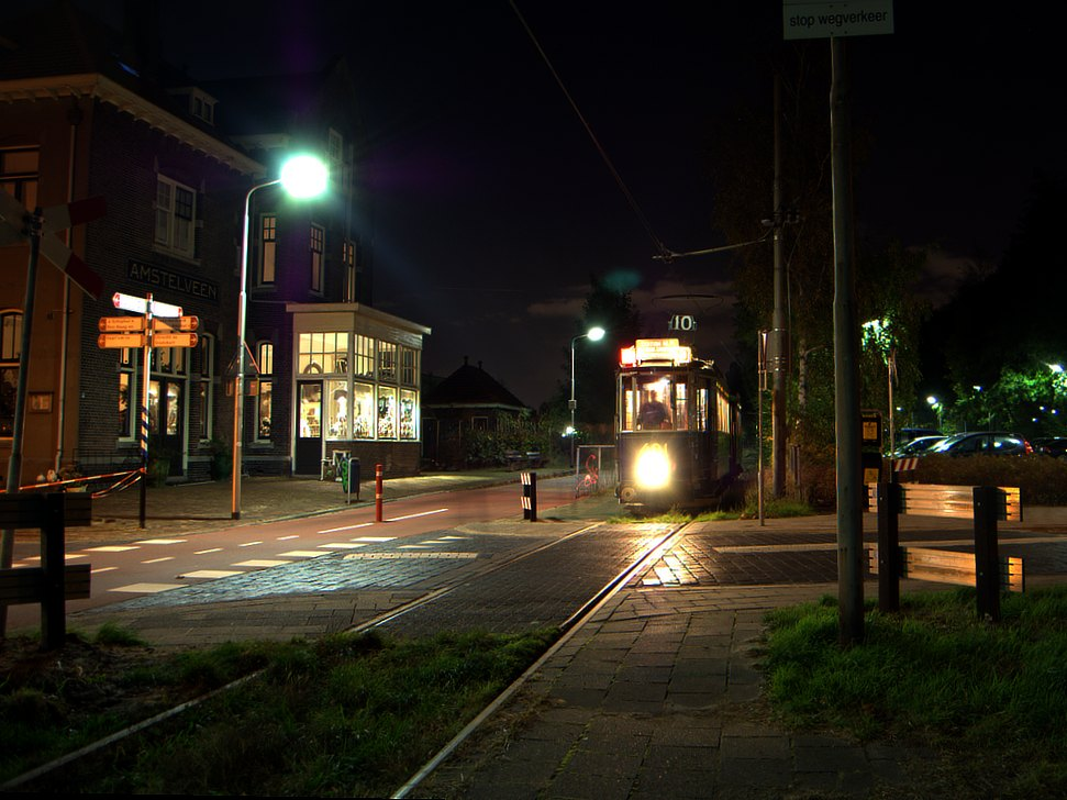 View On Black